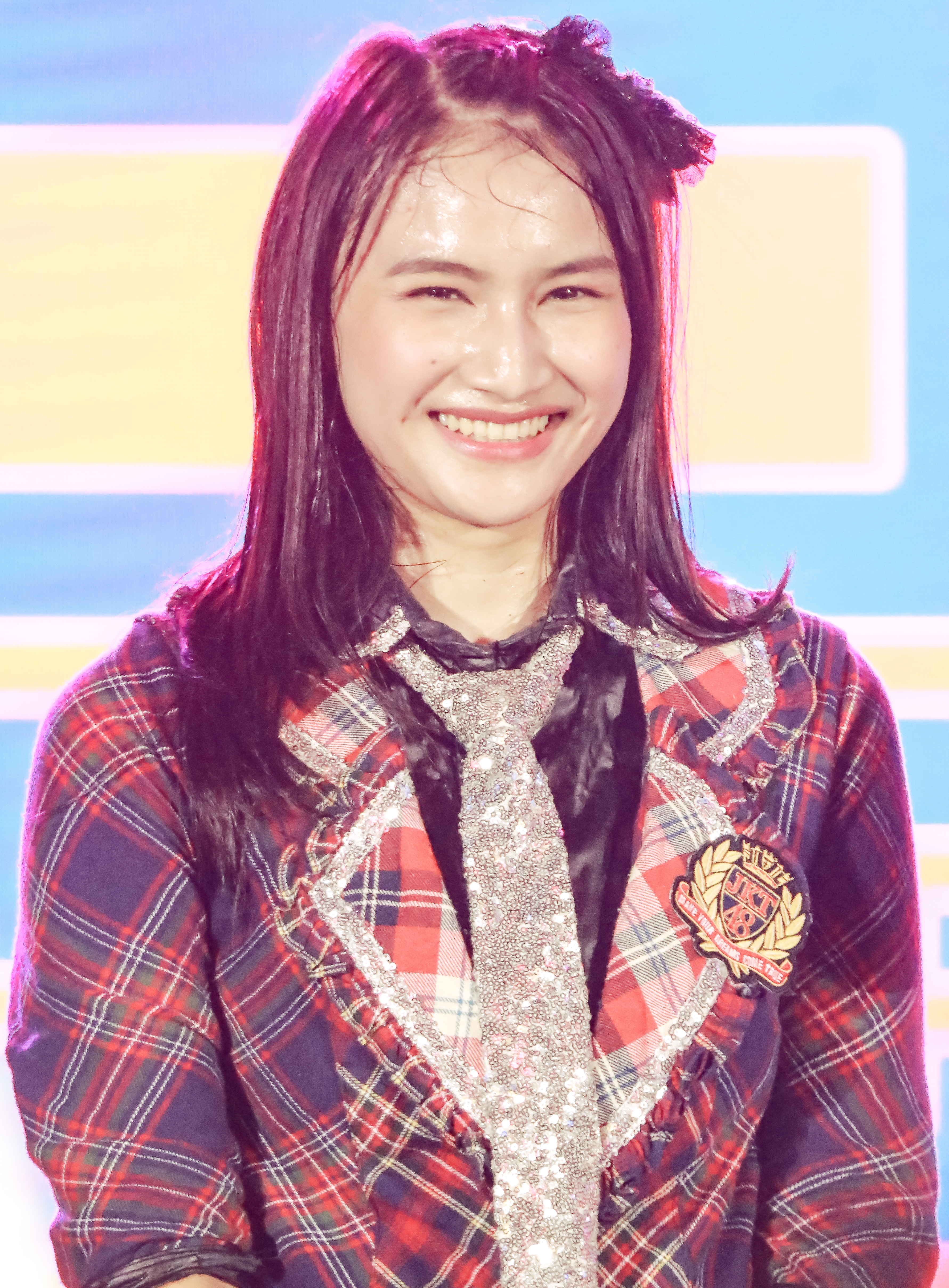 Frizka Anastasia Laksani (Frieska JKT48) on 14 December 2019